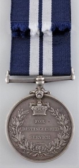 DSM, British Royal Navy gallantry medal, reverse